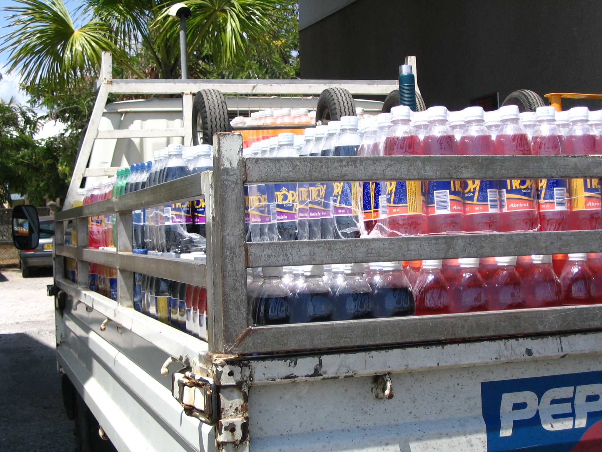 A truck delivering bottles of Tropi Cola soft drinks to a small store in Kourou, French Guiana.